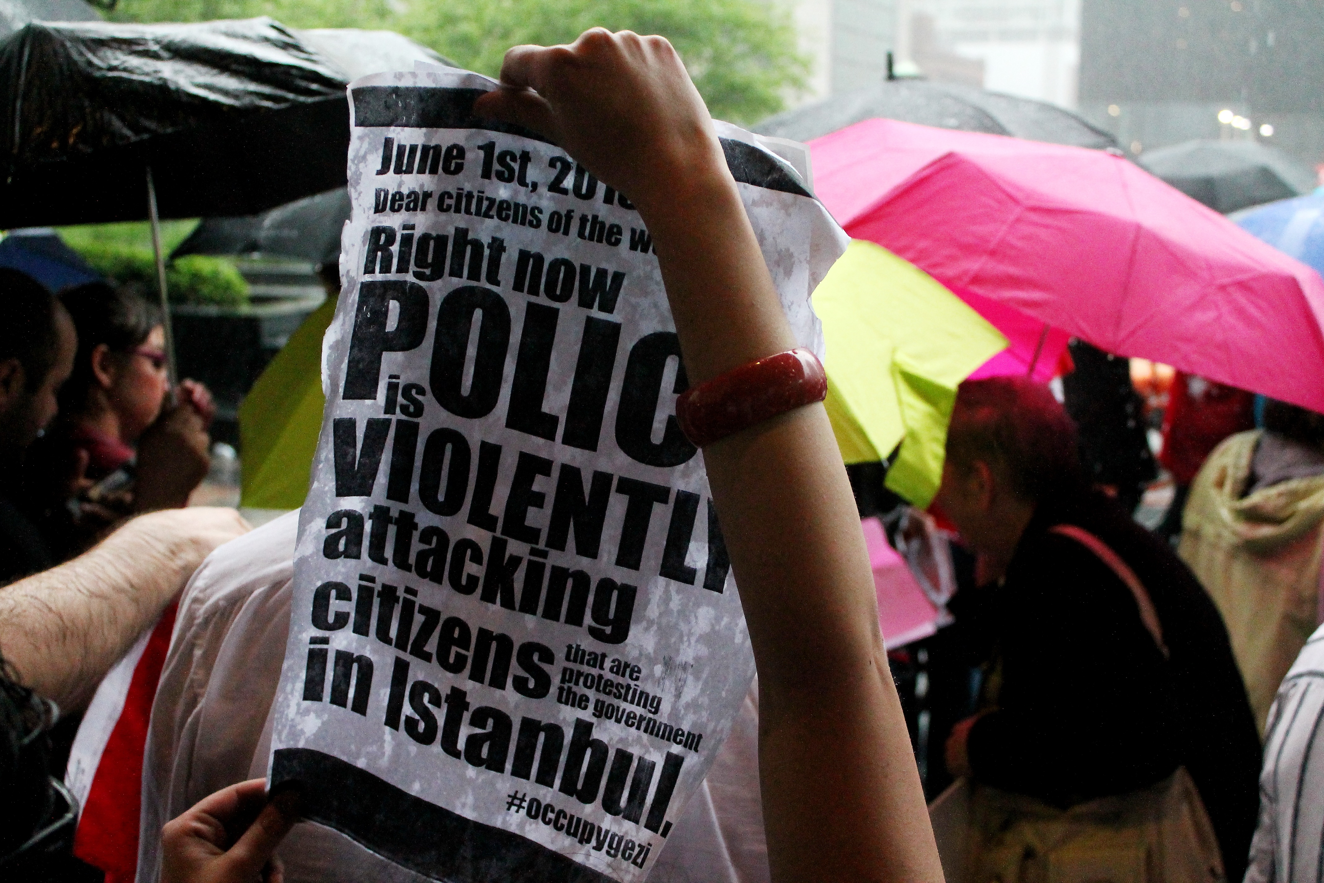 Taksim Gezi Park protests in Chicago, IL